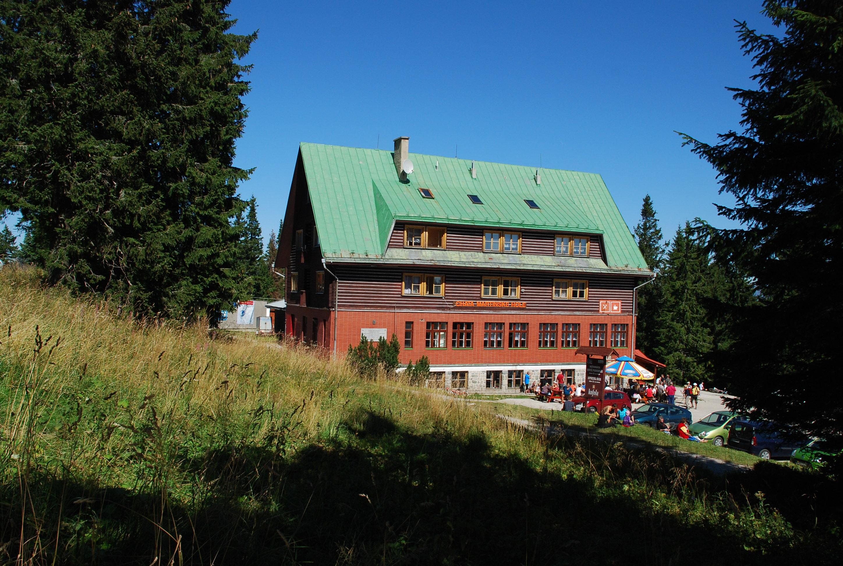 Martinské Hole hut, Martin, Slovakia.